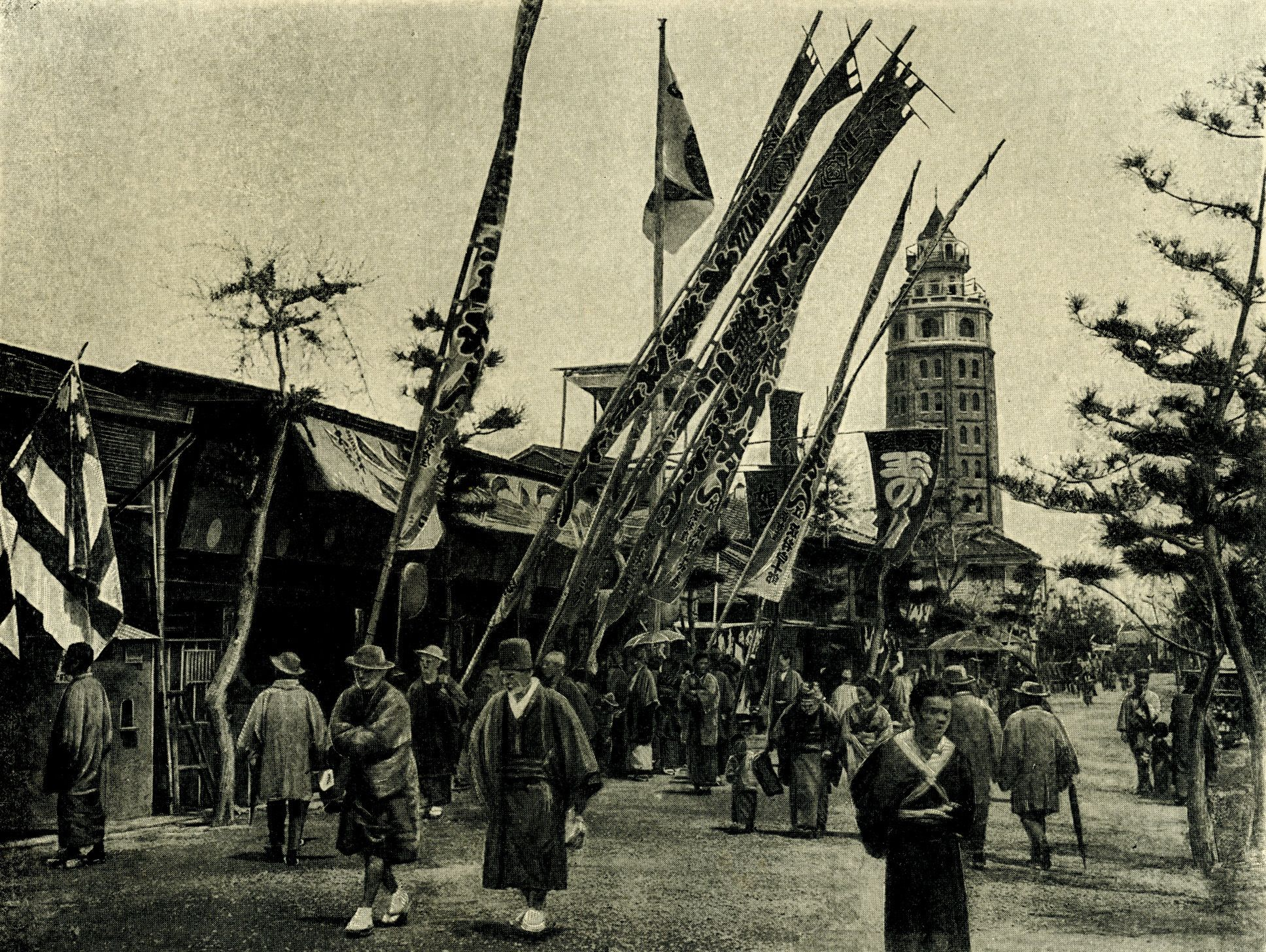 Refreshment stall in Tokyo. Image from the book "Japan And Japanese" (1902). It's Asakusa Lokku 浅草六区, an entertainment district in Tokyo. You can see Ryōunkaku 凌雲閣, the 12 strayed tower, built in 1890